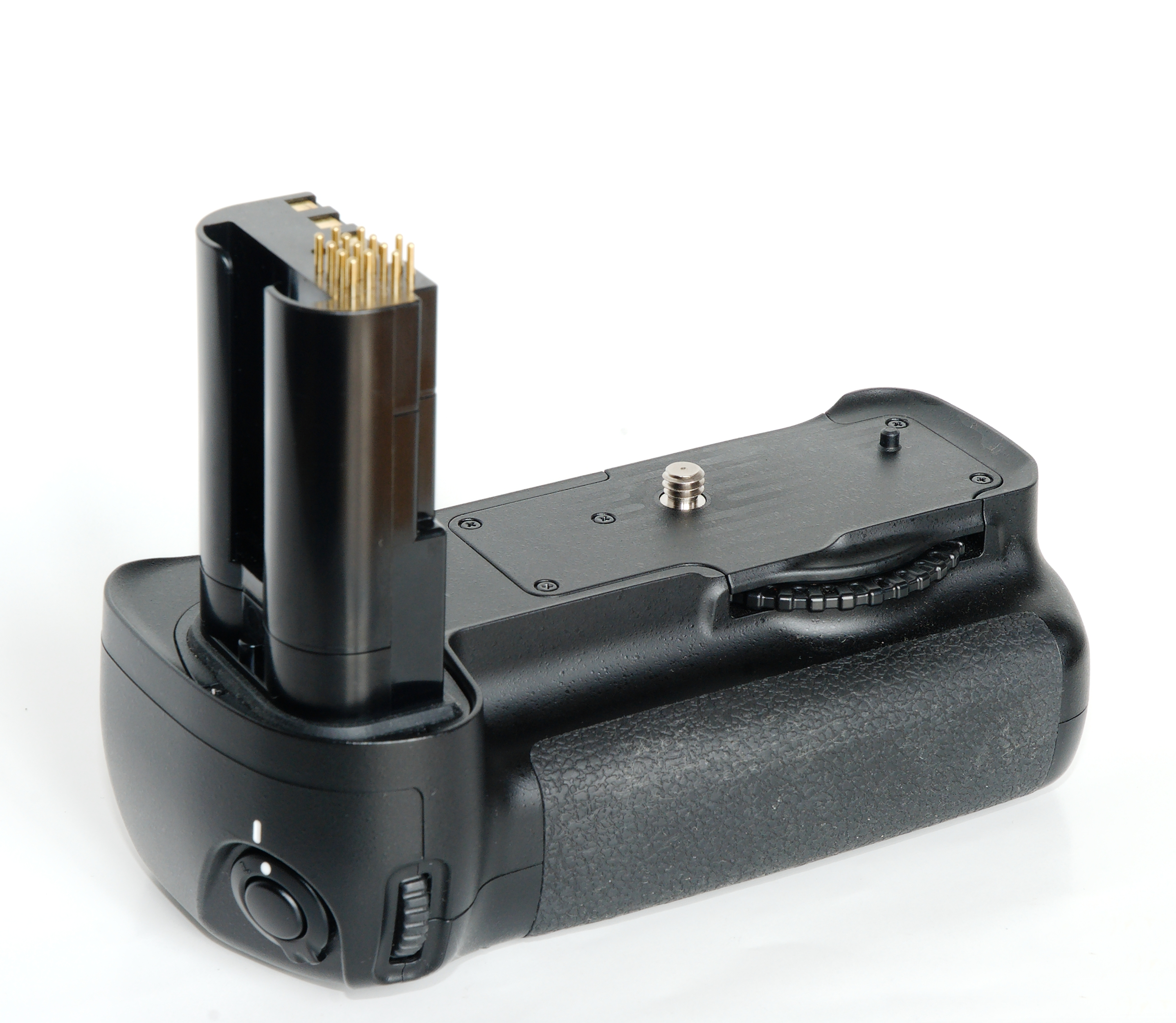 MB-D200 multi-power grip for the Nikon D200 dSLR.